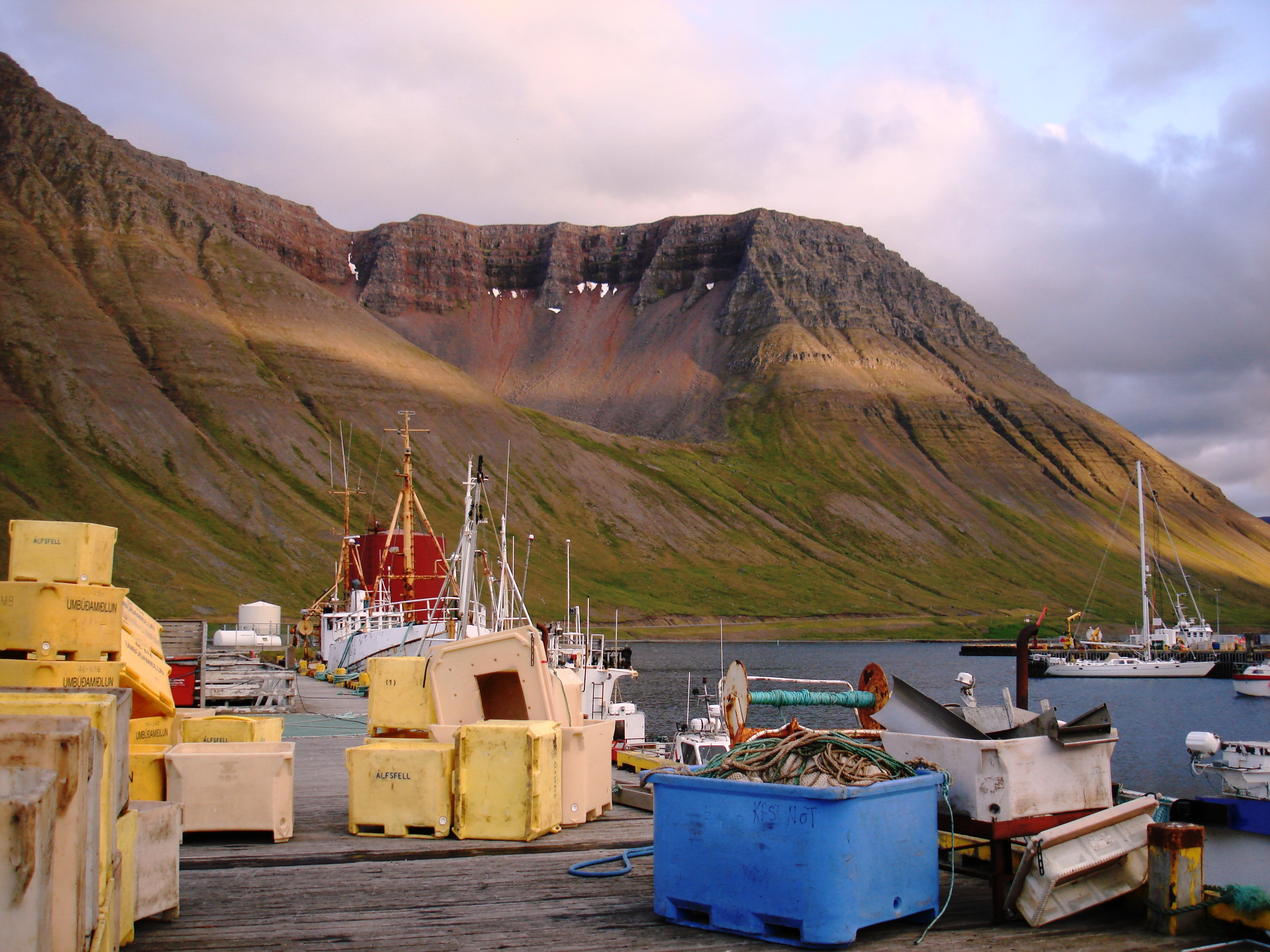 Isafjordur harbour